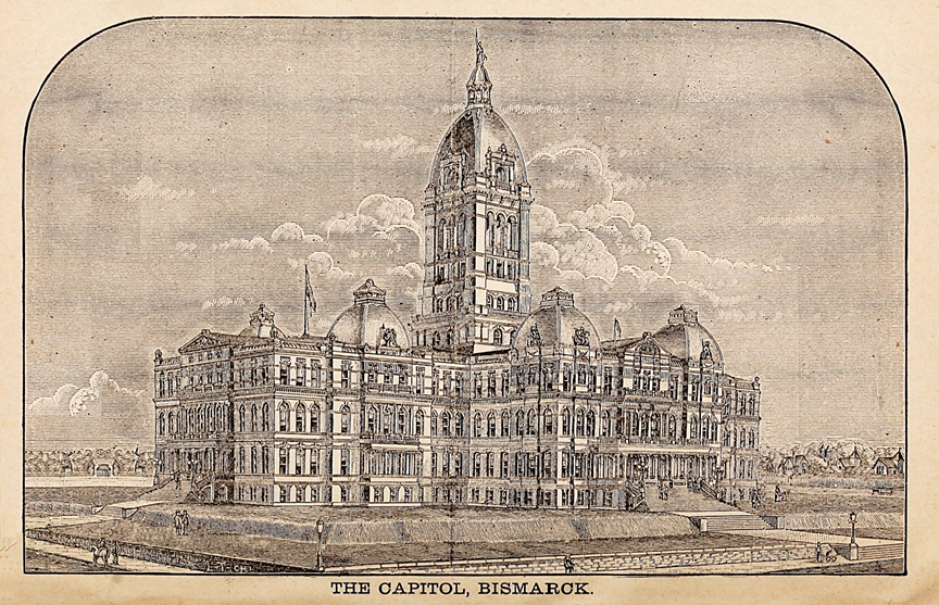 Architects presentation drawing as a woodcut of the territorial capitol of North Dakota at Bismark - 1883 - by Caulkins and Tilford of Minneapolis, Minnesota